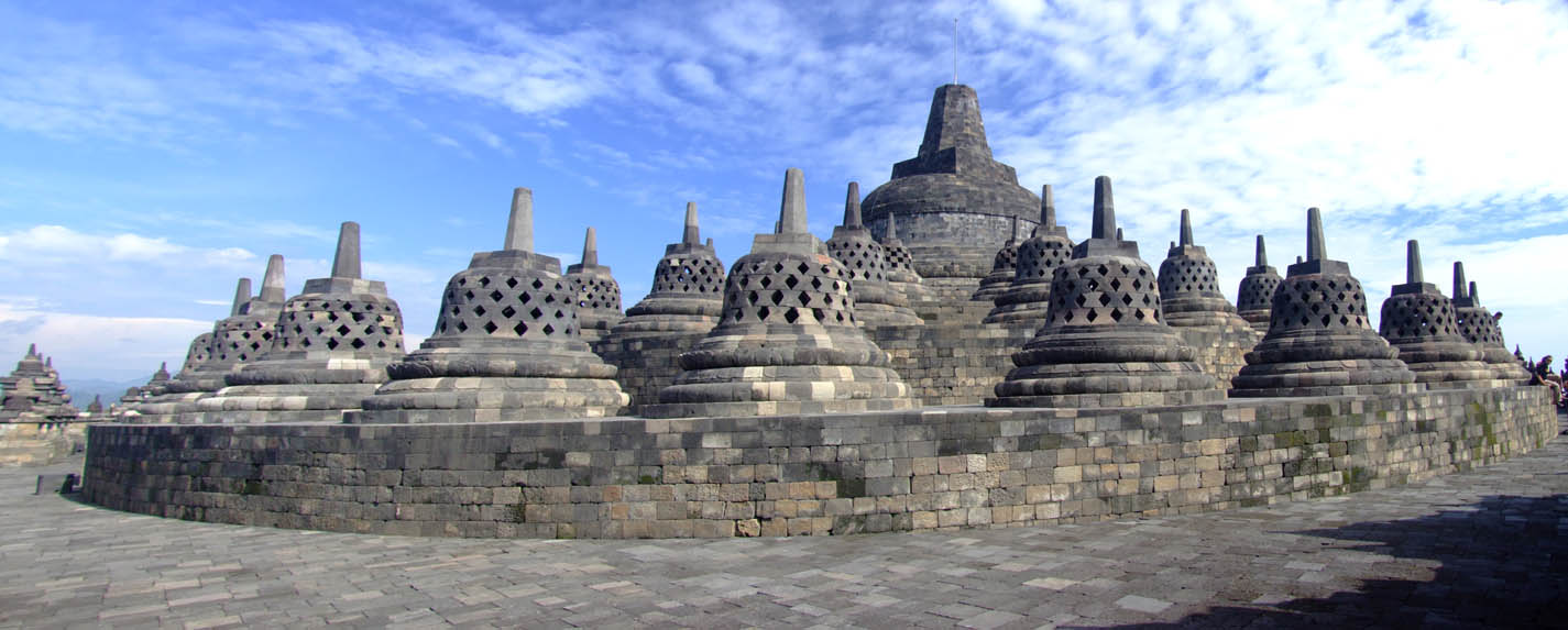 Borobudur temple panorama.